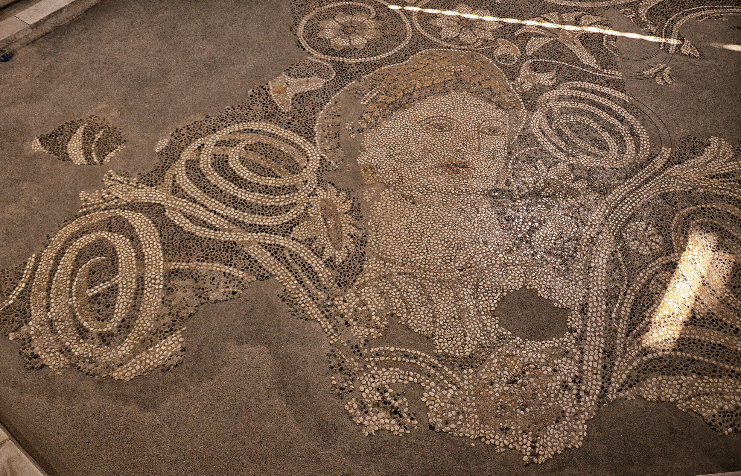 Mosaic called "The Beauty of Durrës" ("Bukuroshja e Durrësit") from Dyrrhachium, 4th century BC in the National Museum of History in Tirana, Albania